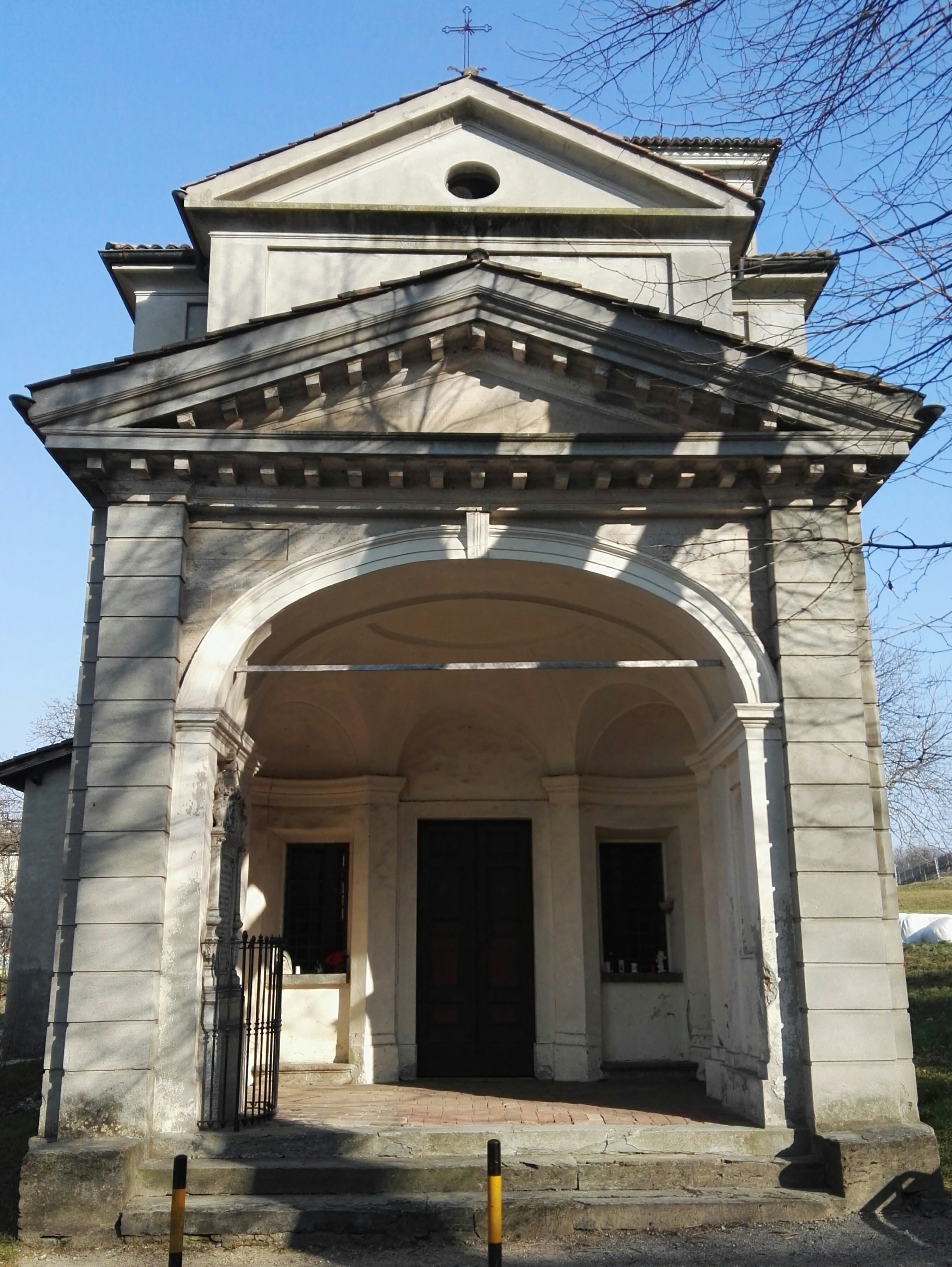 Oratory B.V. in Boscherina - facade (Novazzano)